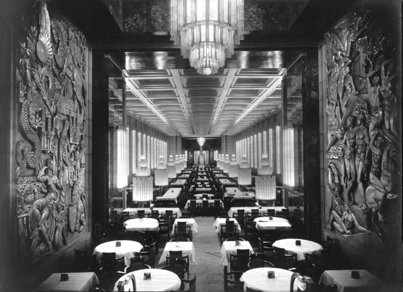 Grand dining room of the ocean liner SS Normandie (1935)